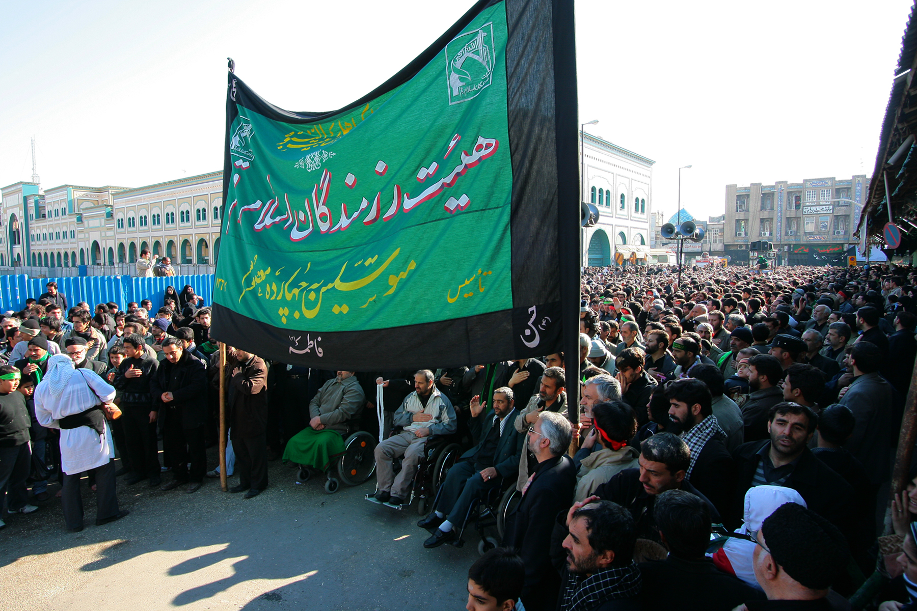 Mourning of Muharram